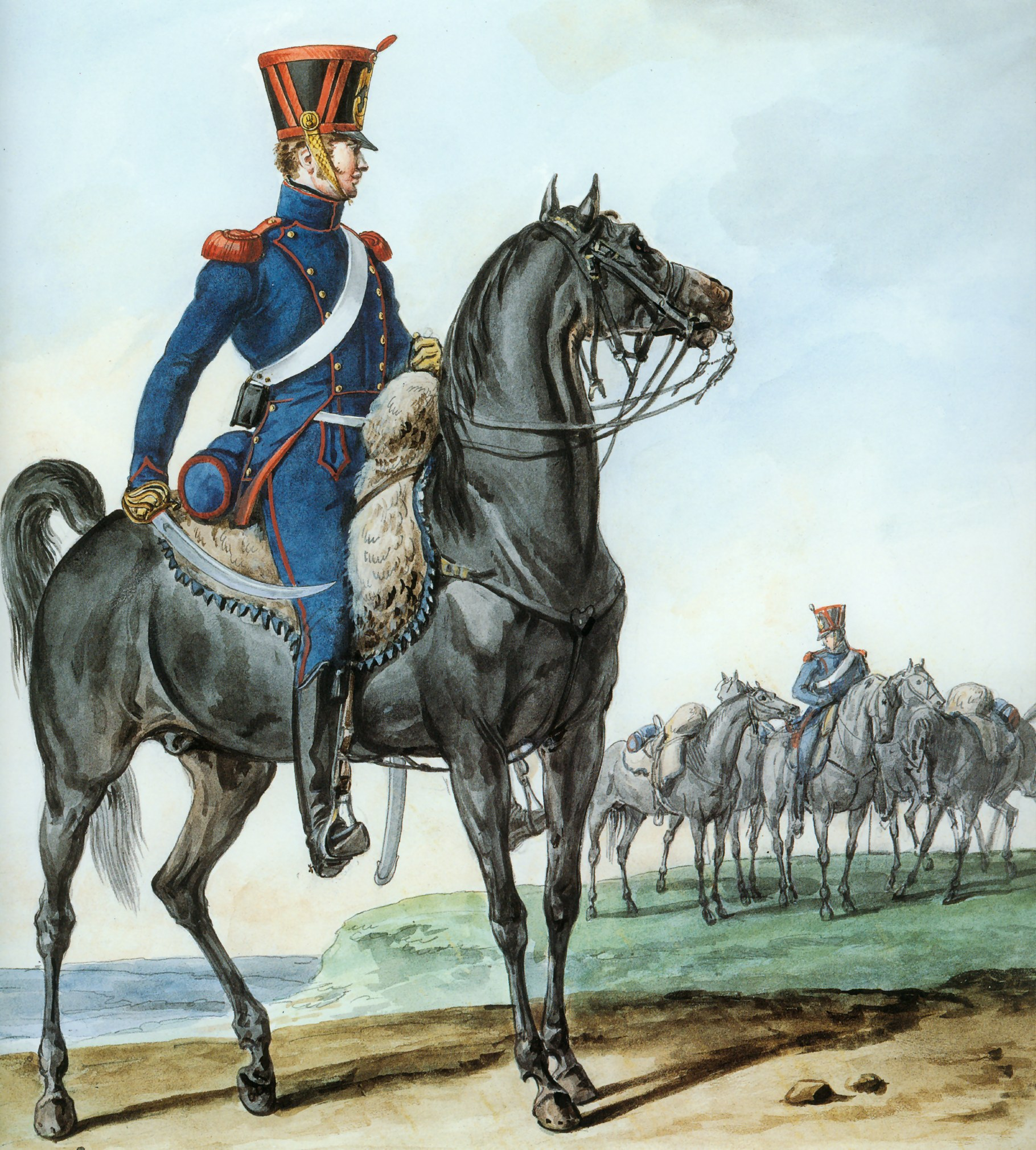 Part of a series chronicling the uniforms of Napoleon's Grande Armée.